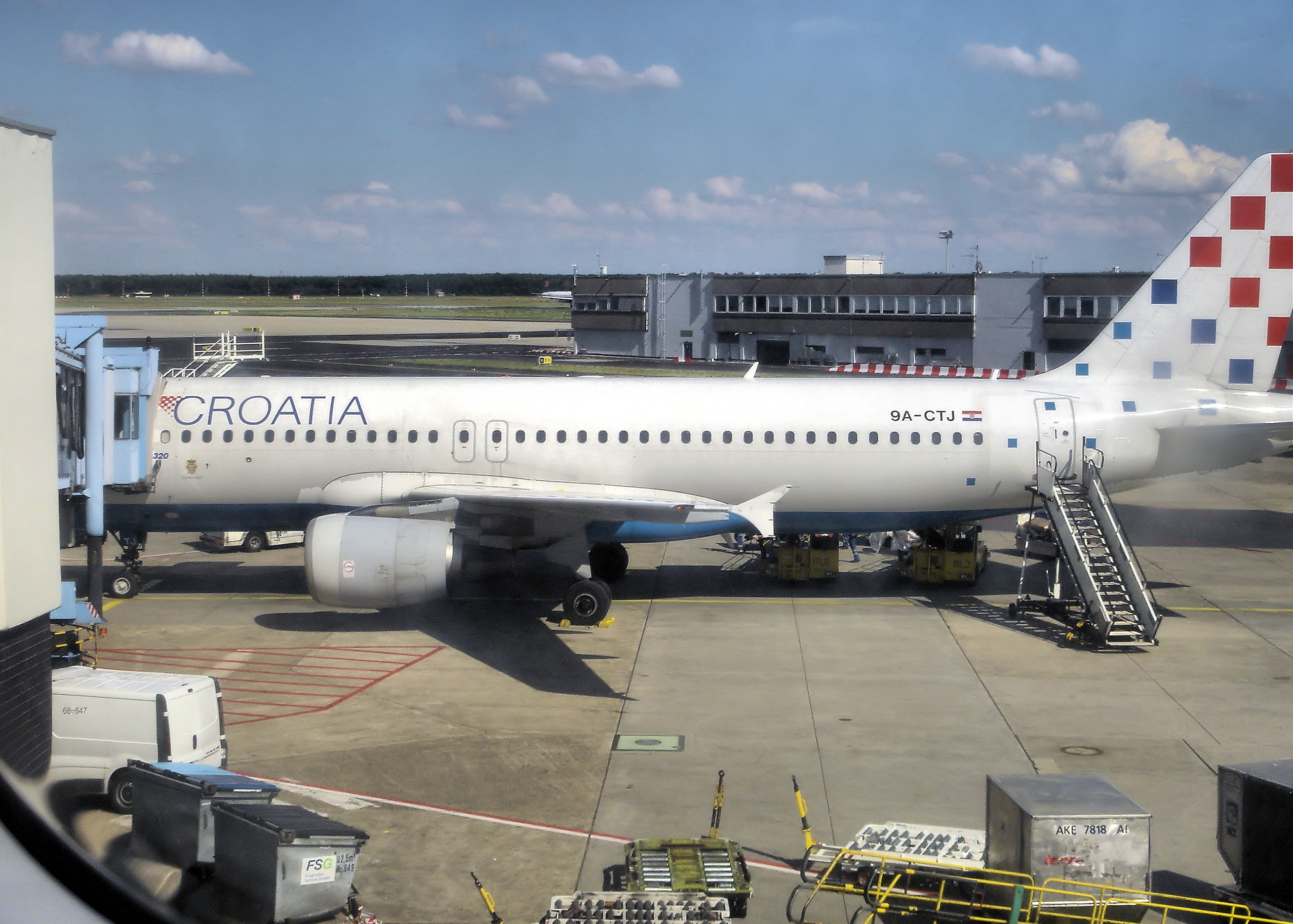 Croatia Airlines Airbus A-320 (9A-CTJ) at Frankfurt International Airport.